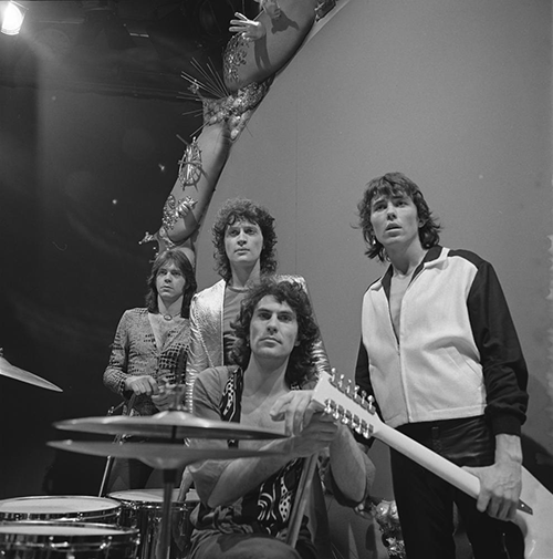 Golden Earring in AVRO's TopPop (Dutch television show) in 1974